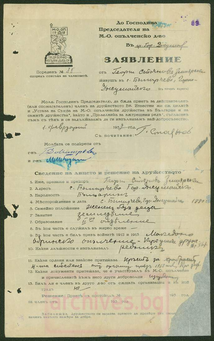 Georgi_Zmiyarski's Document